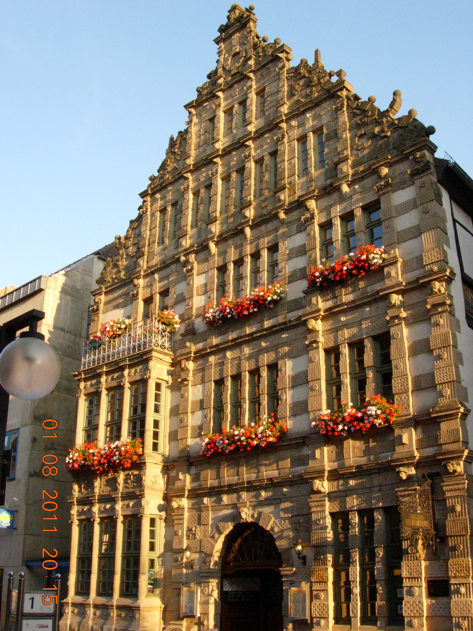 Front of the Pied Piper's House (Rattenfängerhaus) in Hameln. The Garnisonkirche/Stadtsparkasse and the Pied Piper's House (Rattenfängerhaus) are sign/point #1 on the Hameln walking tour through the city